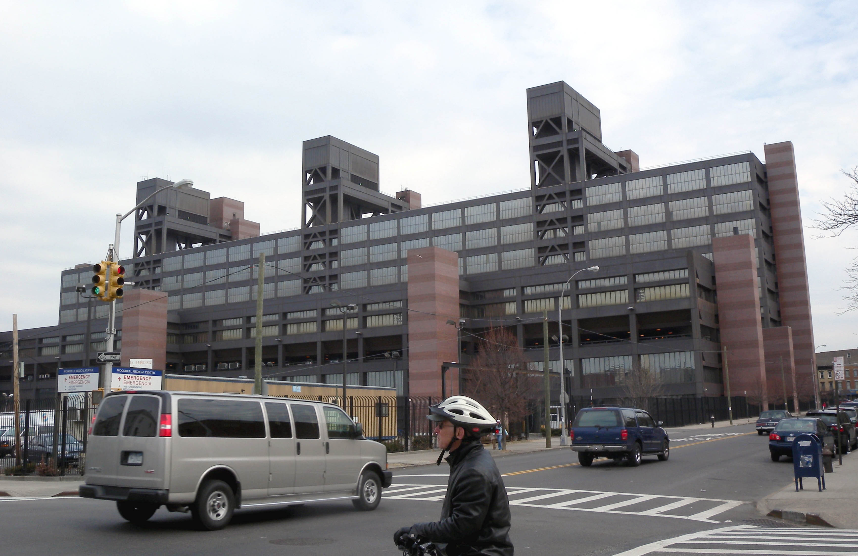 Looking east along Park Avenue from Throop Avenue at southwest side of Woodhull Medical Center on a cloudy midday. Not as good as File:Woodhull Hospital jeh.JPG.